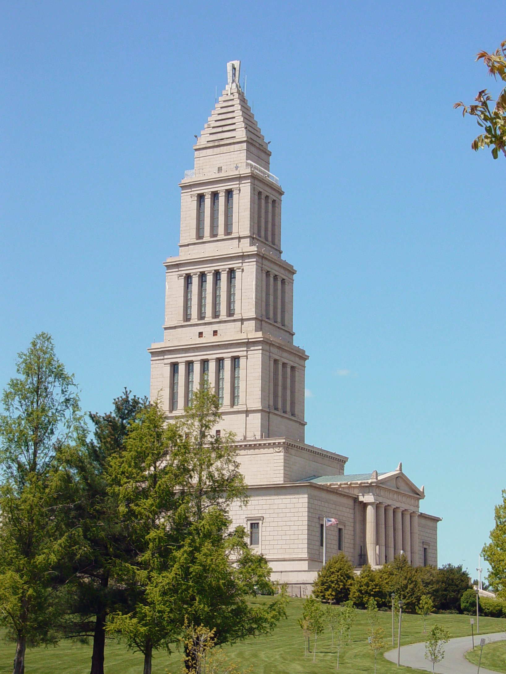 The George Washington Masonic National Memorial in Alexandria, Virginia.